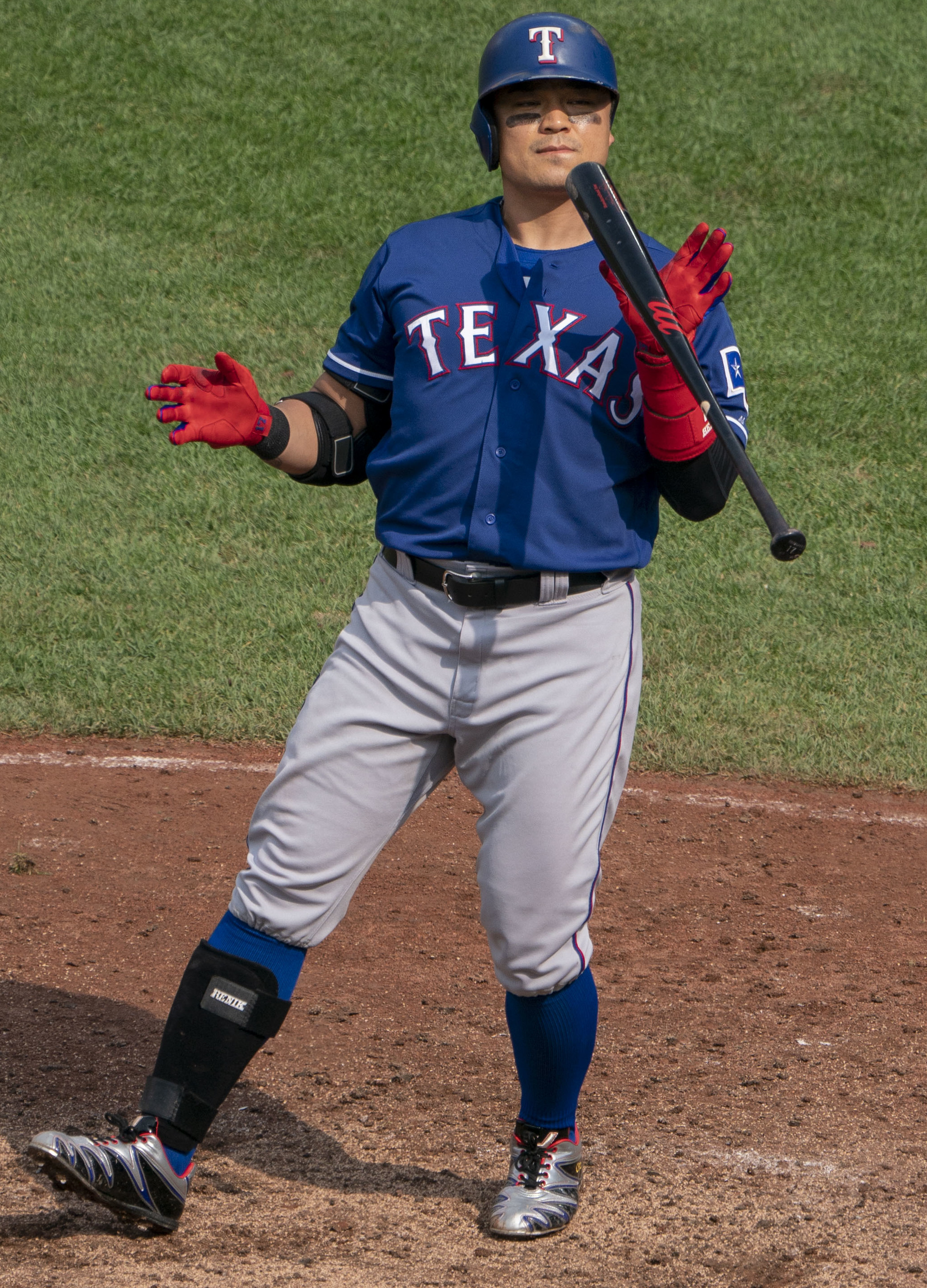 Rangers at Orioles 7/15/18